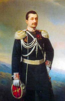 Niko Dadiani, last Prince of Mingrelia; 1847-1903. Dadiani Palace, Zugdidi, Georgia